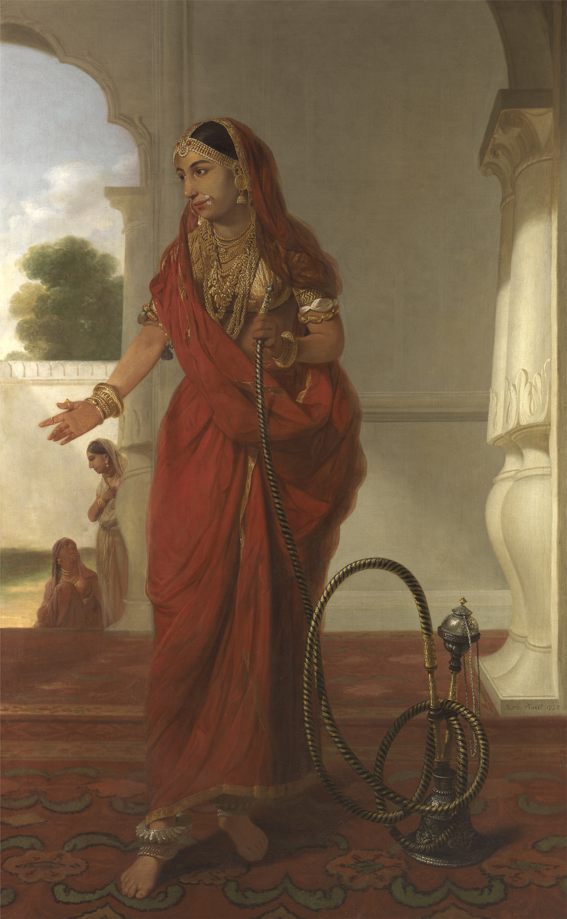 Tilly Kettle, Dancing Girl, 1772, oil on canvas, Yale Center for British Art, Paul Mellon Collection